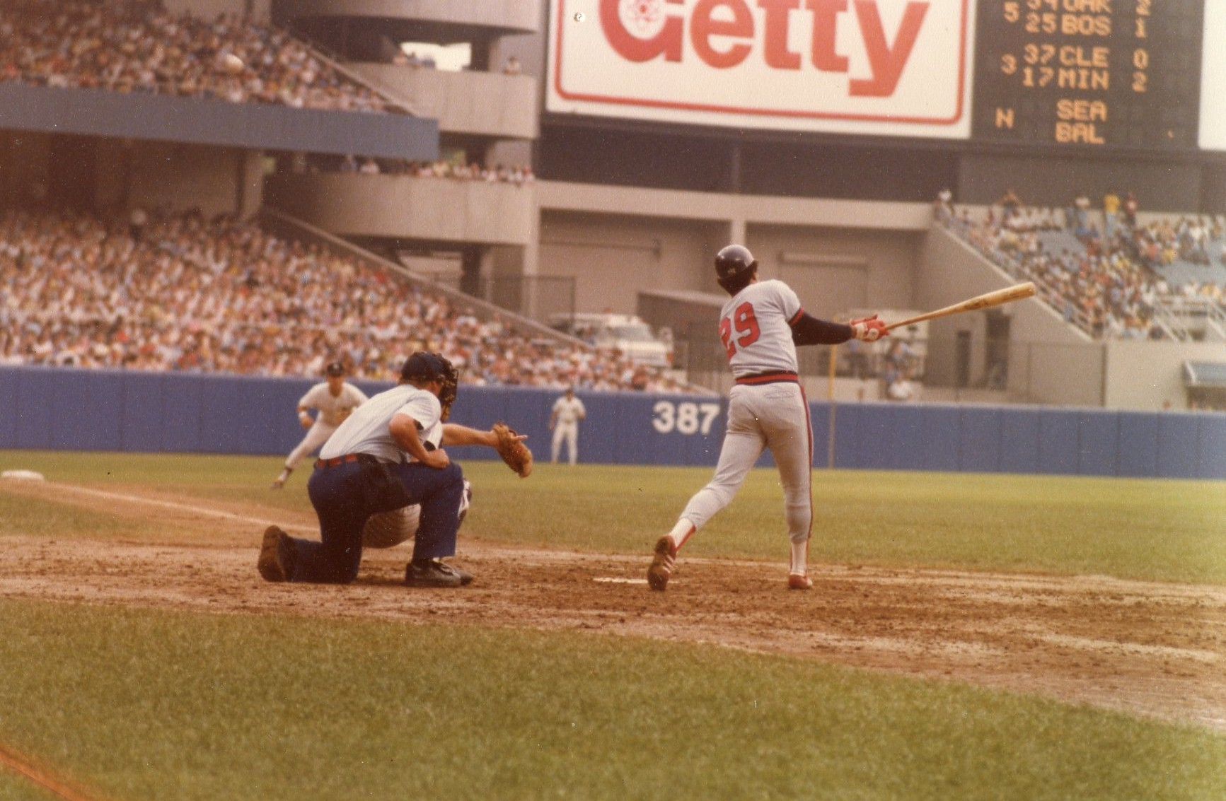 Rod Carew batting at Yankee Stadium. July 26, 1979.